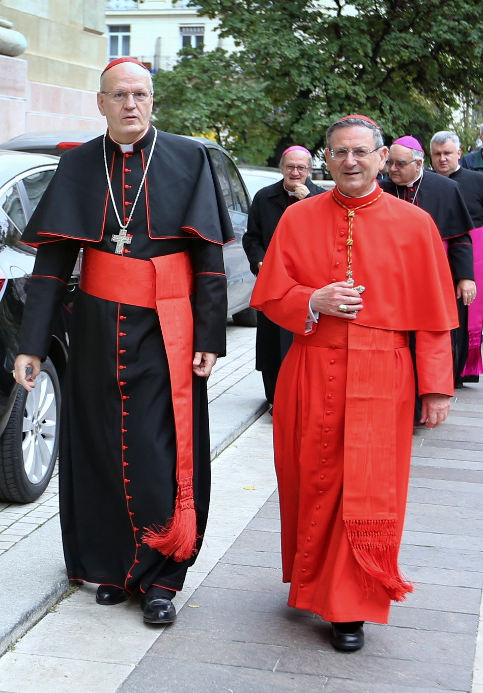 Angelo Amato and P. Erdő in Budapest, 19.10.2013.